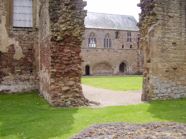 Cleeve Abbey The remains of the abbey, in Somerset, as seen through the entrance gateway